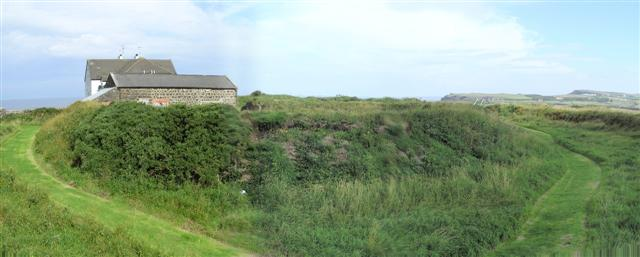 Lissanduff Earthworks, Port Ballintrea. This is the larger one.